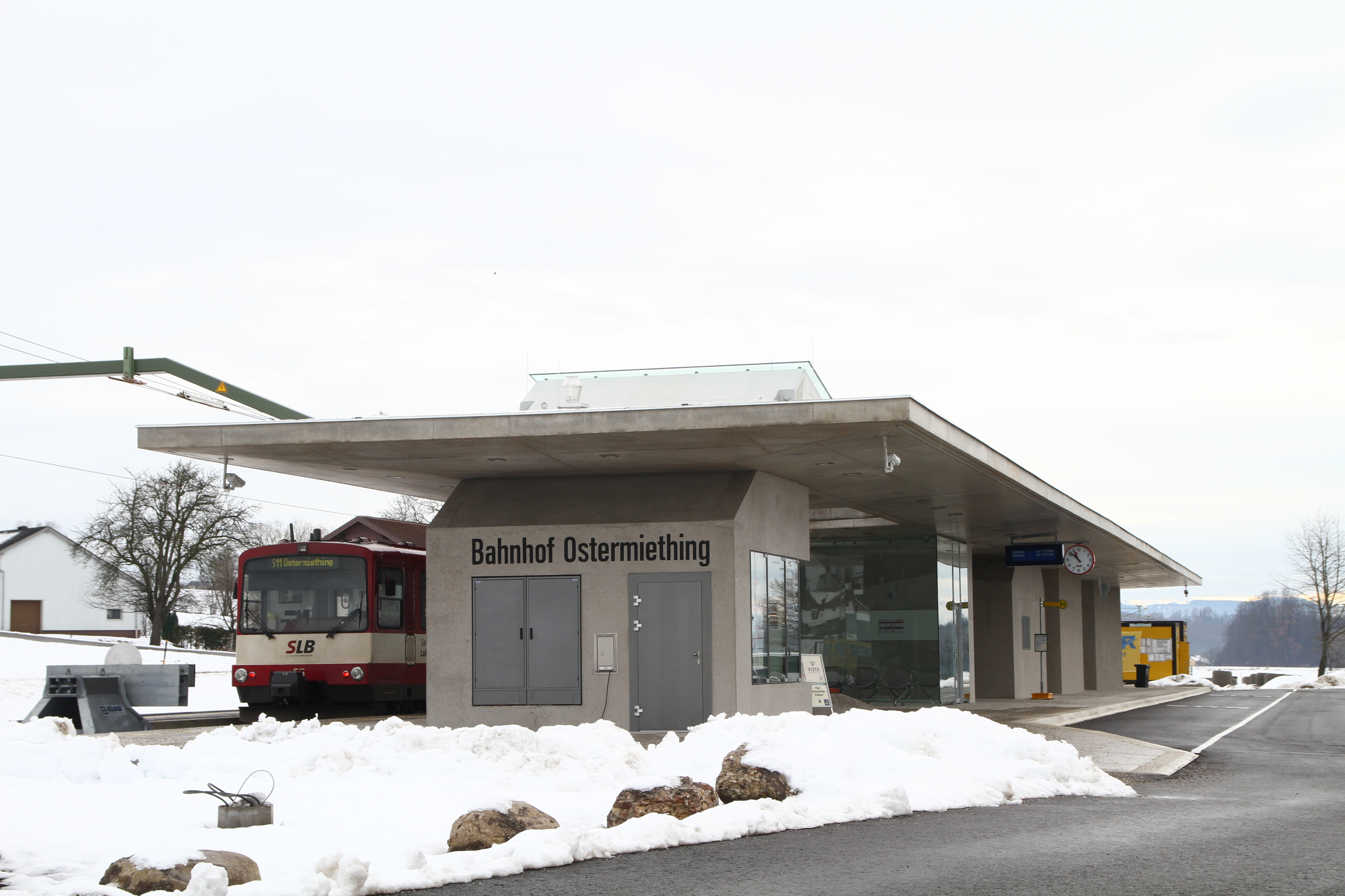 SLB ET 55 at Ostermiething station